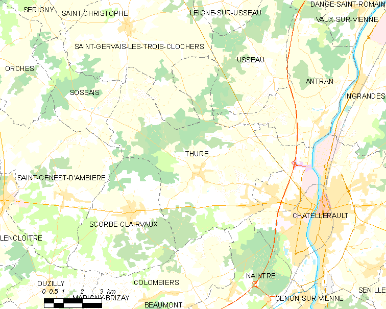 Map of French municipality Thuré